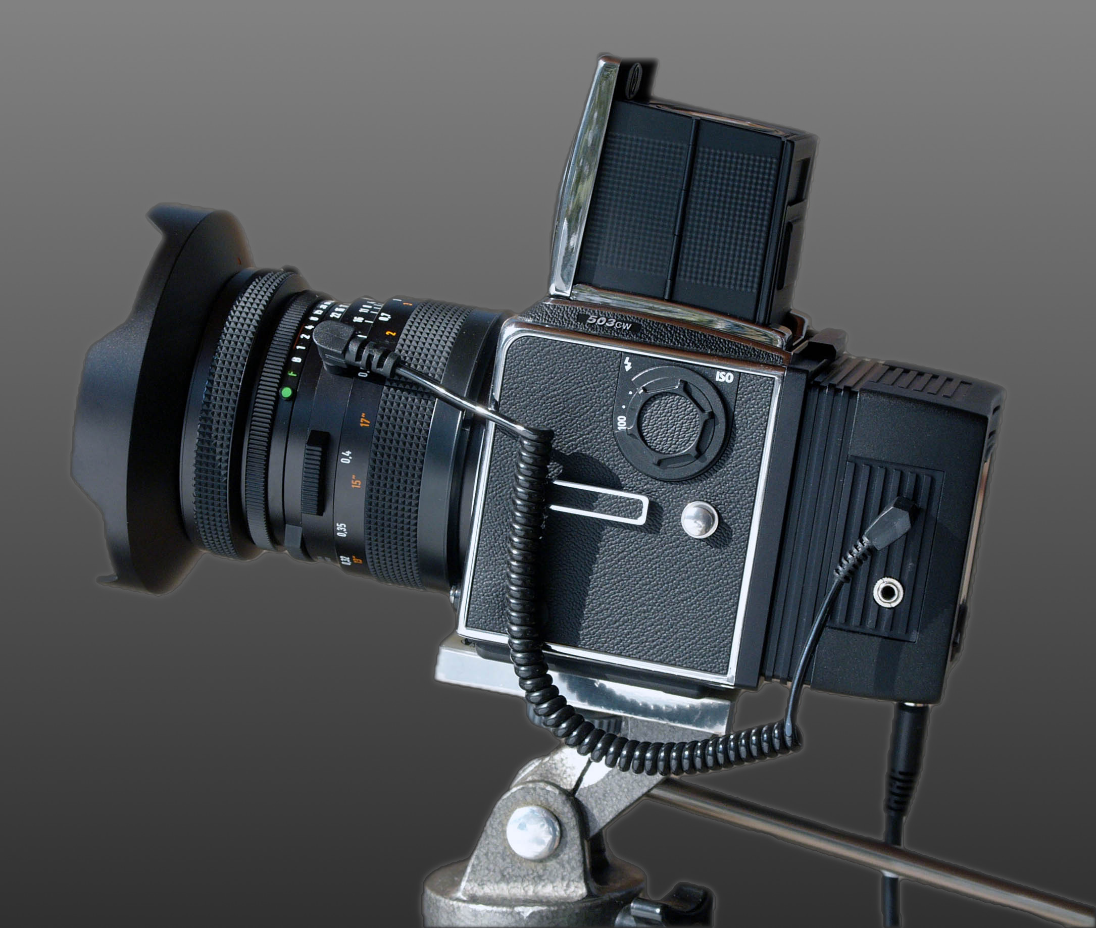 Hasselblad 503 CW with Zeiss F-Distagon 3,5/30 and digital back Ixpress V96C (16 megapixel sensor).